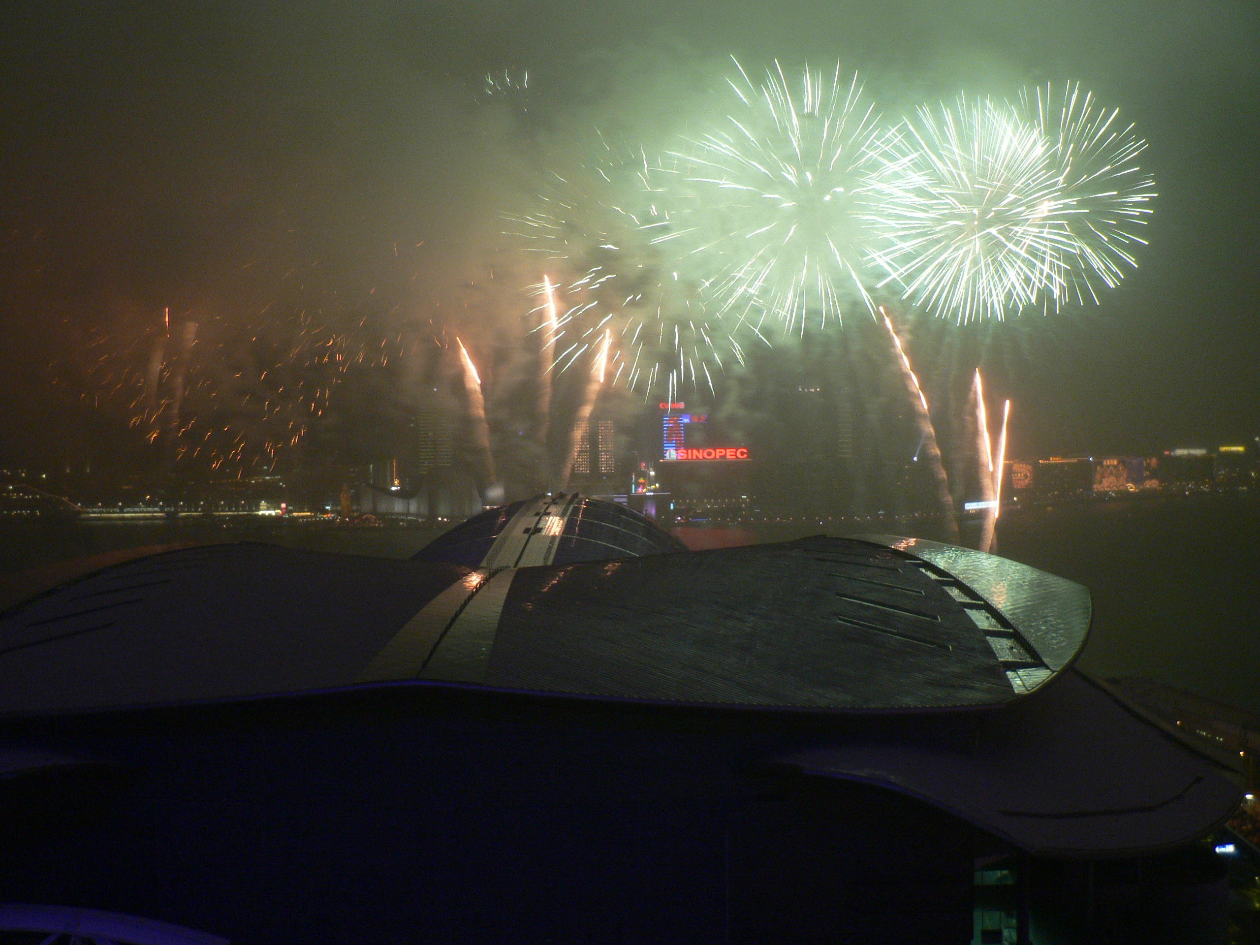 Hong Kong Lunar New Year Fireworks 2007, Author: KC Kong